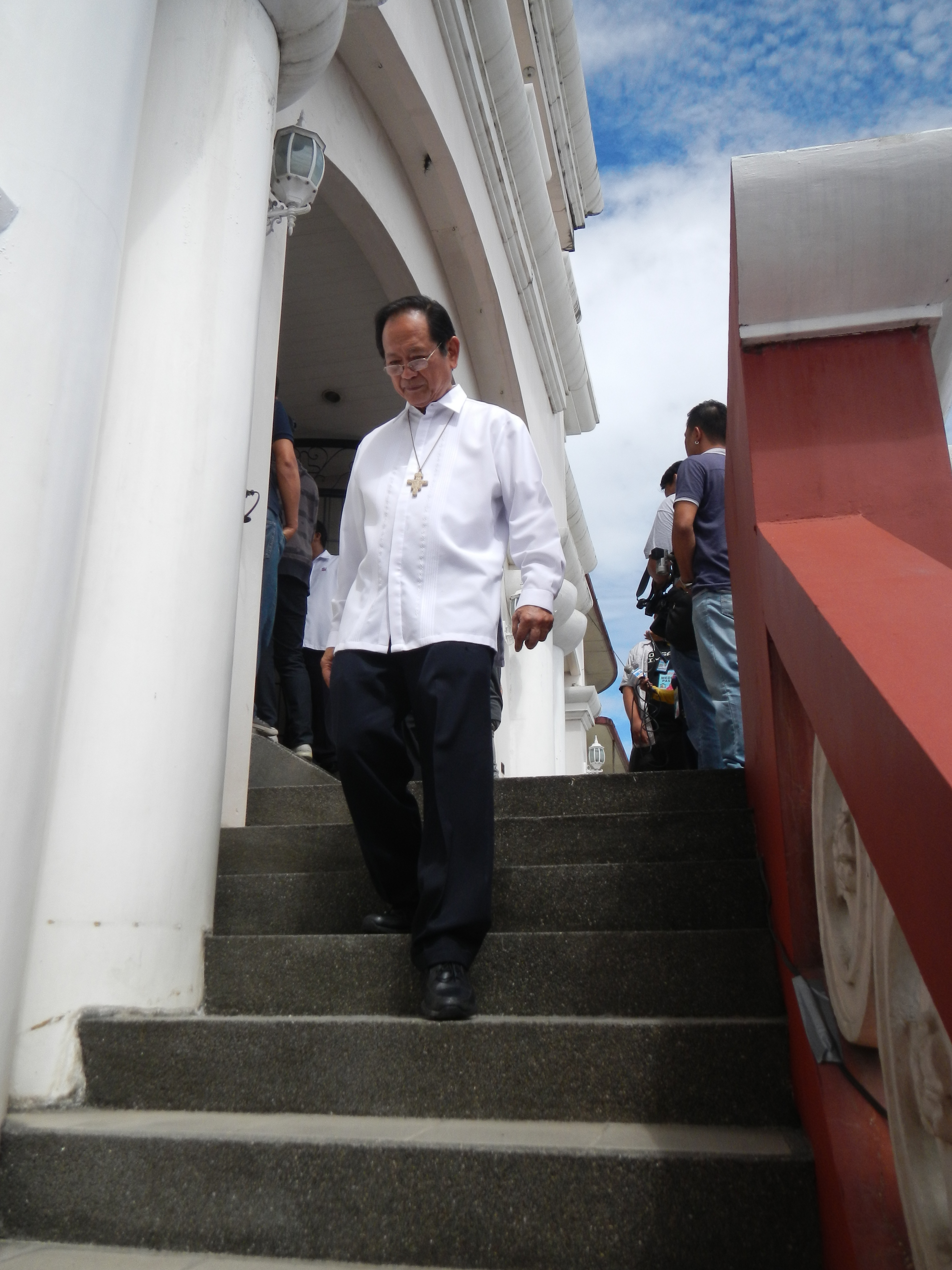 Roman Catholic Diocese of Novaliches Teodoro C. Bacani, Jr. Bishop Emeritusw Dec. 7, 2002 [Appointed] - Nov. 25, 2003 Resigned Media on the NEWLY Painted, Restoreed, Renovated (- for the October 27 Installation of Florentino Lavarias, D.D., in the) Metropolitan Cathedral of San Fernando in Pampanga - Florentino Lavarias.